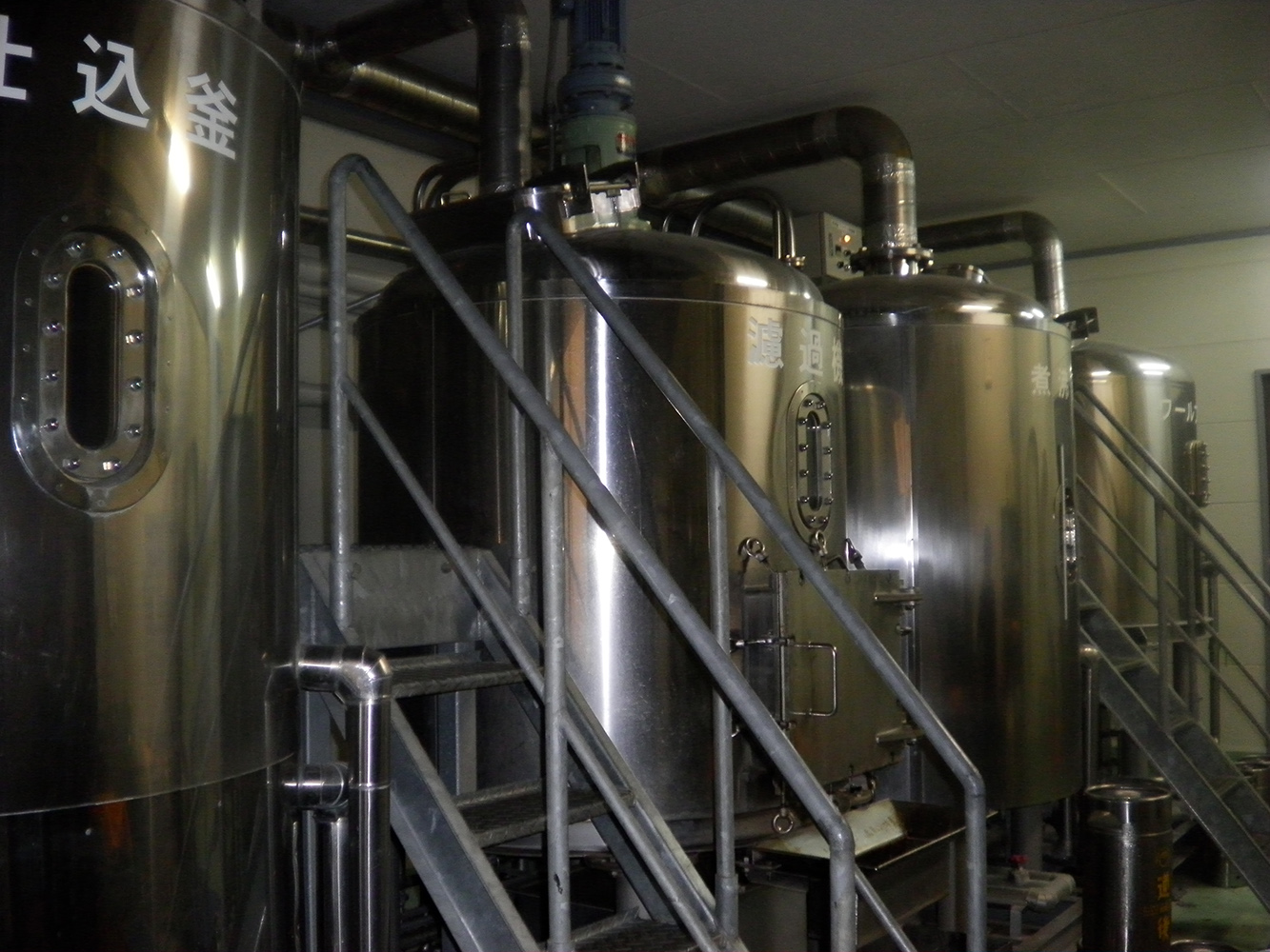 Vats of Dogo Beer undergoing fermentation